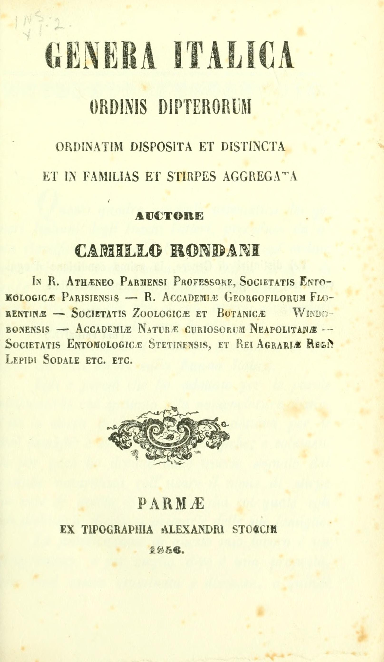 Rondani Dipterologiae Italia TitlePage